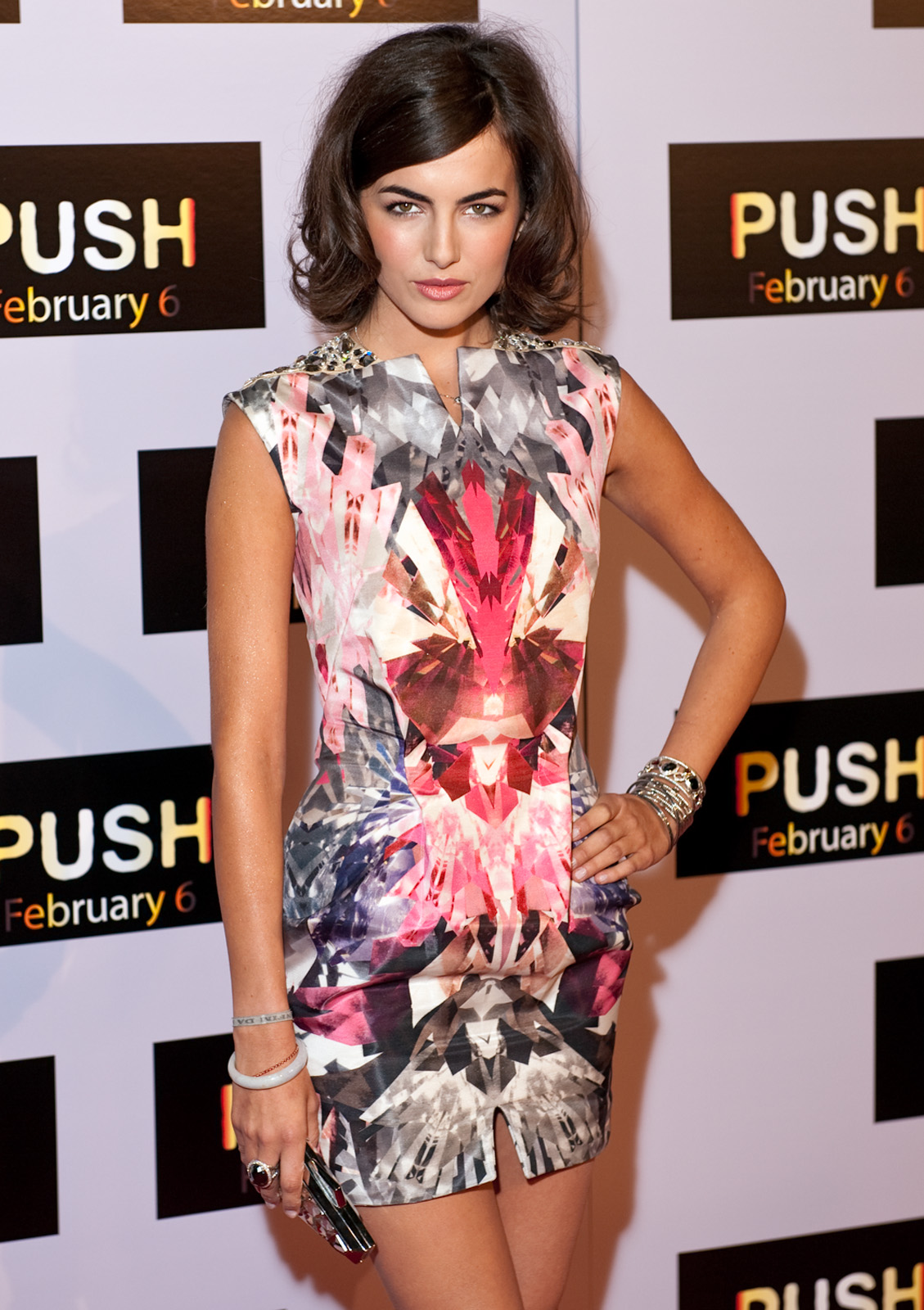 American actress Camilla Belle arrives at the premiere of the motion picture Push, Mann Theater, Westwood, Los Angeles, California. She is wearing a multicolored print dress by designer Alexander McQueen, listed among "100 Best Dresses of the Decade" by InStyle Magazine.[1]